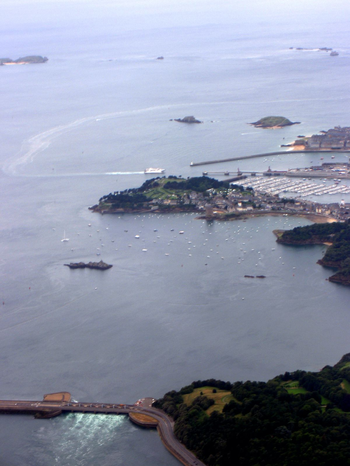 Aerial view of Barrage de la Rance and Saint-Malo